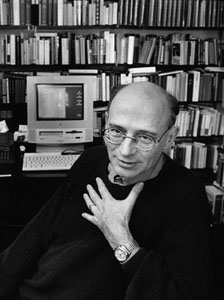 Iso Camartin